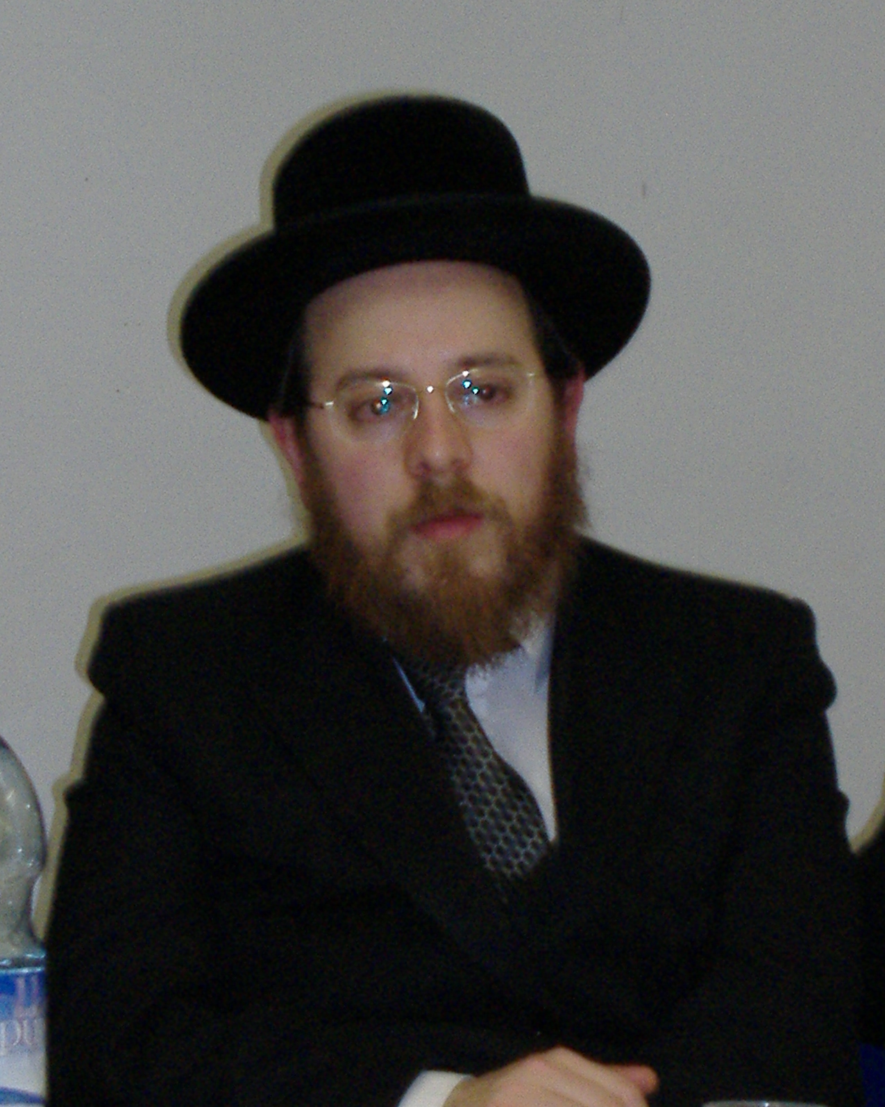 Rabbi Yisroel Friedman, scion of the Chortkover chassidic dynasty.